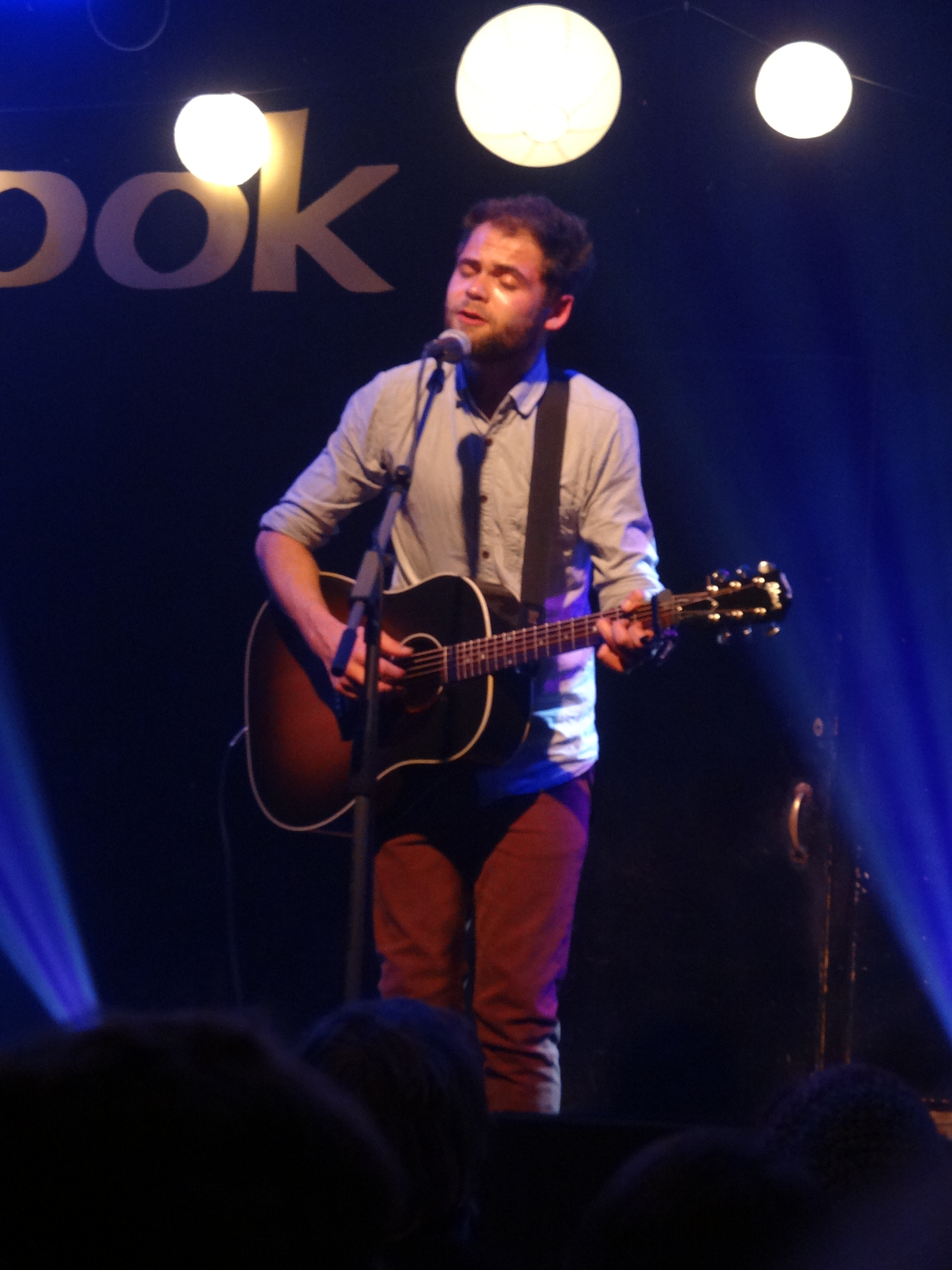 Mike Rosenberg (AKA Passenger), seen performing at The Brook music venue, Southampton, Hampshire, in January 2013.